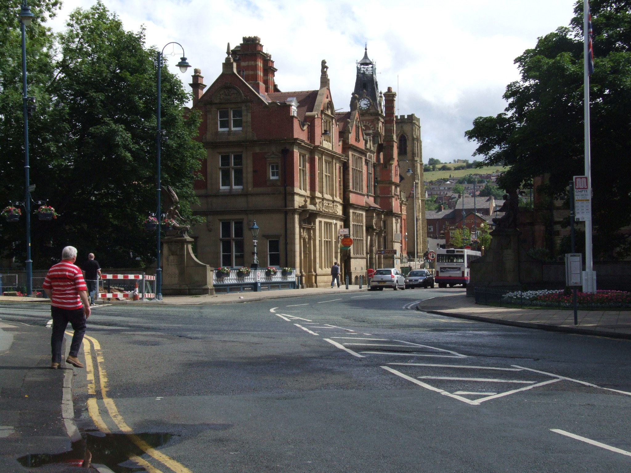 The Stalybridge, is a town in Thameside, Greater Manchester,England. From remains of Stalybridge town hall, over the Victoria bridge (River Tame), to PostOffice and Church. With Millpond pub in background.